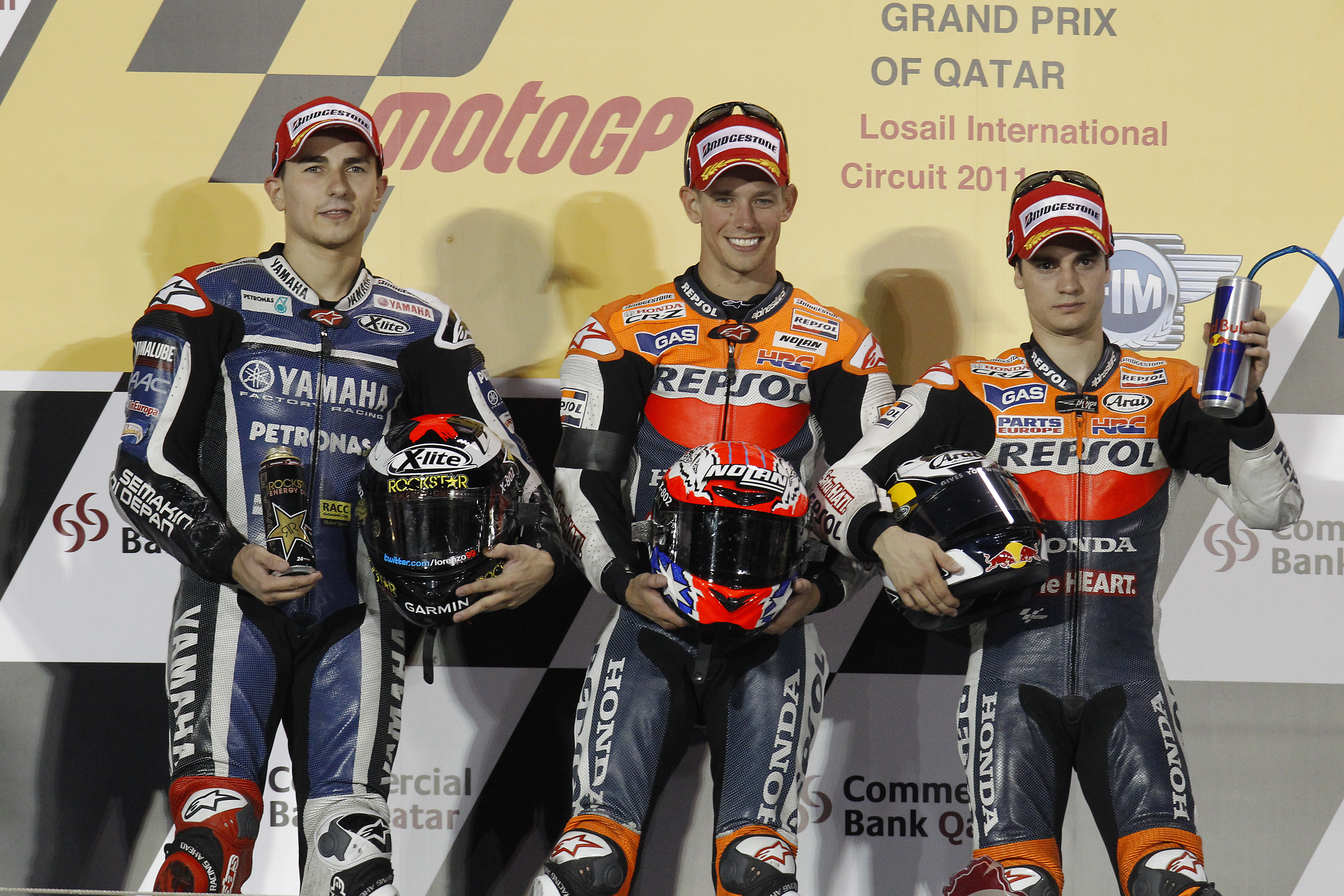 Jorge Lorenzo, Casey Stoner and Dani Pedrosa, posing for a photo on the podium after finishing in second, first and third position at the 2011 Qatar Grand Prix.